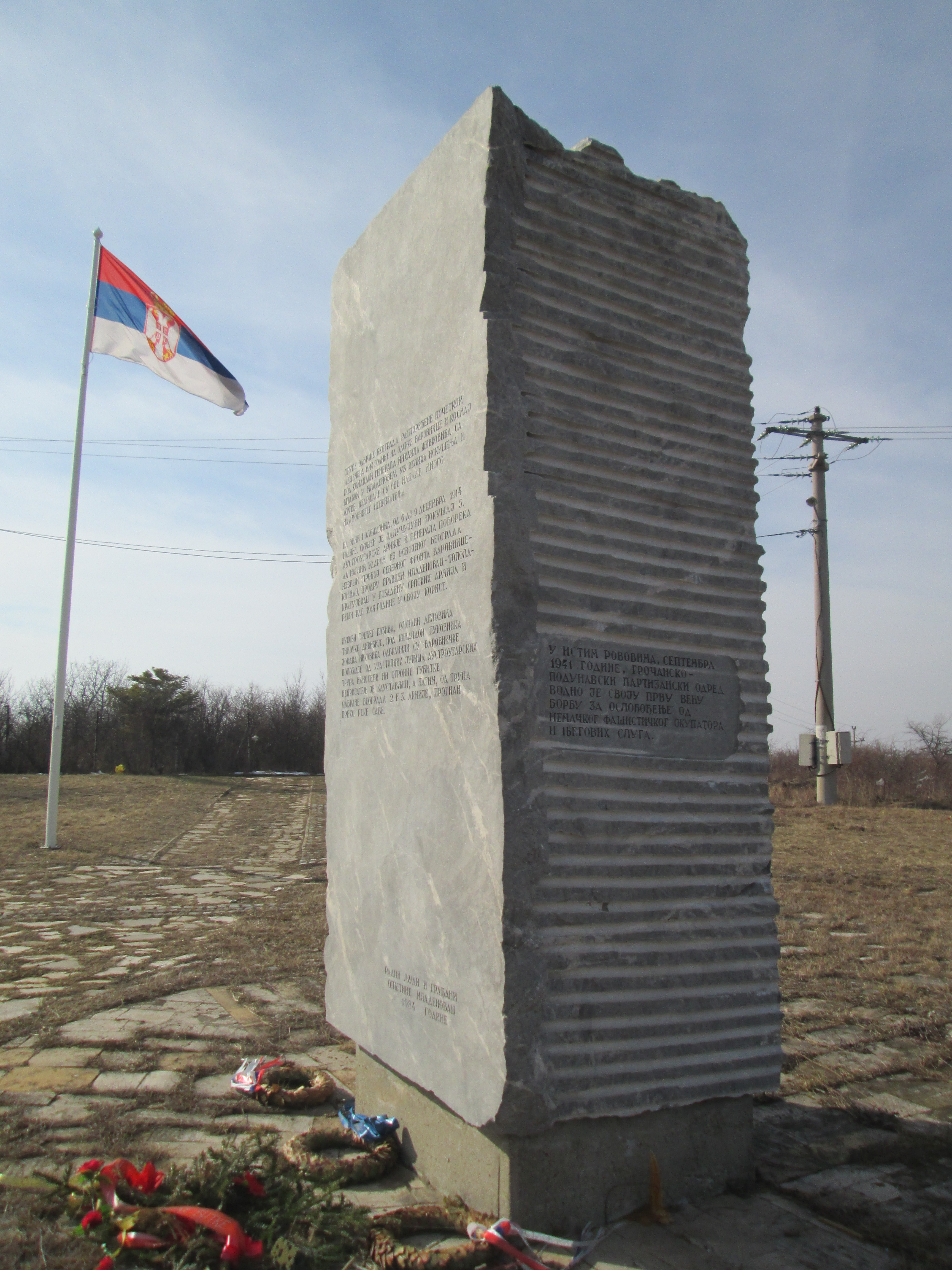 Monument to the fallen soldiers on Varovnica hill 6-9 December 1914. Српски (ћирилица): Споменик ратницима палим на Варовници 6—9. децембра 1914. године.